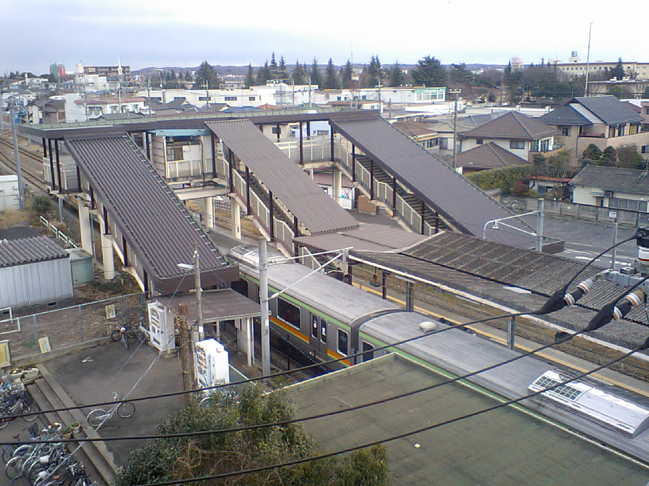 Higashi-Fussa Station on the Hachiko Line, looking northward